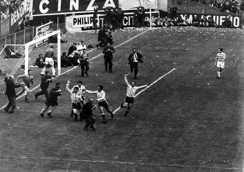 Racing Club players celebrating the first goal scored by Norberto Raffo at the Intercontinental Cup, 2nd leg, played in Avellaneda.